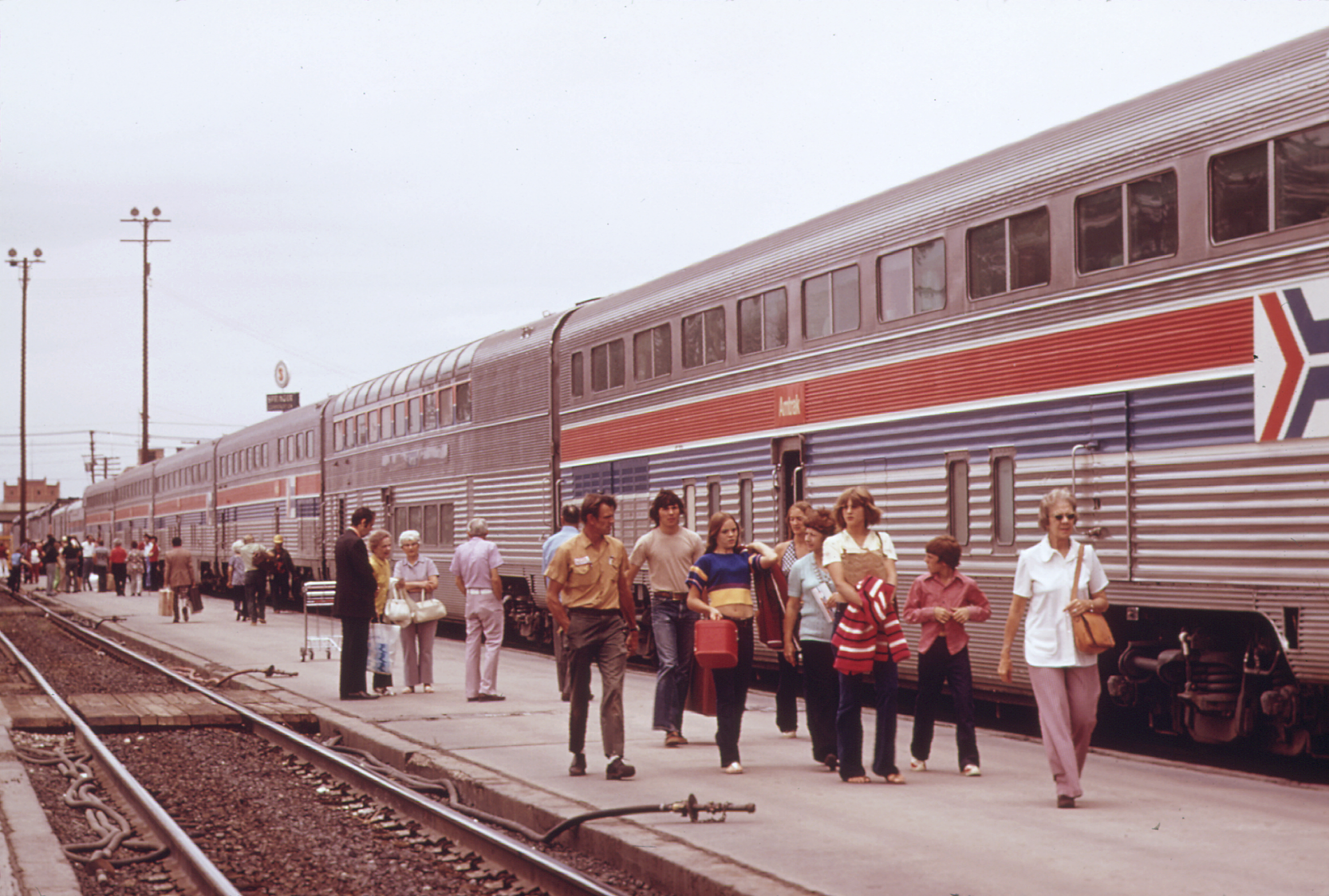 Passengers of the Southwest Limited strolling beside the Amtrak train at Albuquerque, New Mexico, 1974. Image modified (color/levels adjusted and sharpened) from File:PASSENGERS OF THE SOUTHWEST LIMITED STROLLING BESIDE THE AMTRAK TRAIN AT ALBUQUERQUE, NEW MEXICO, AS IT HALTS FOR... - NARA - 555985.jpg.